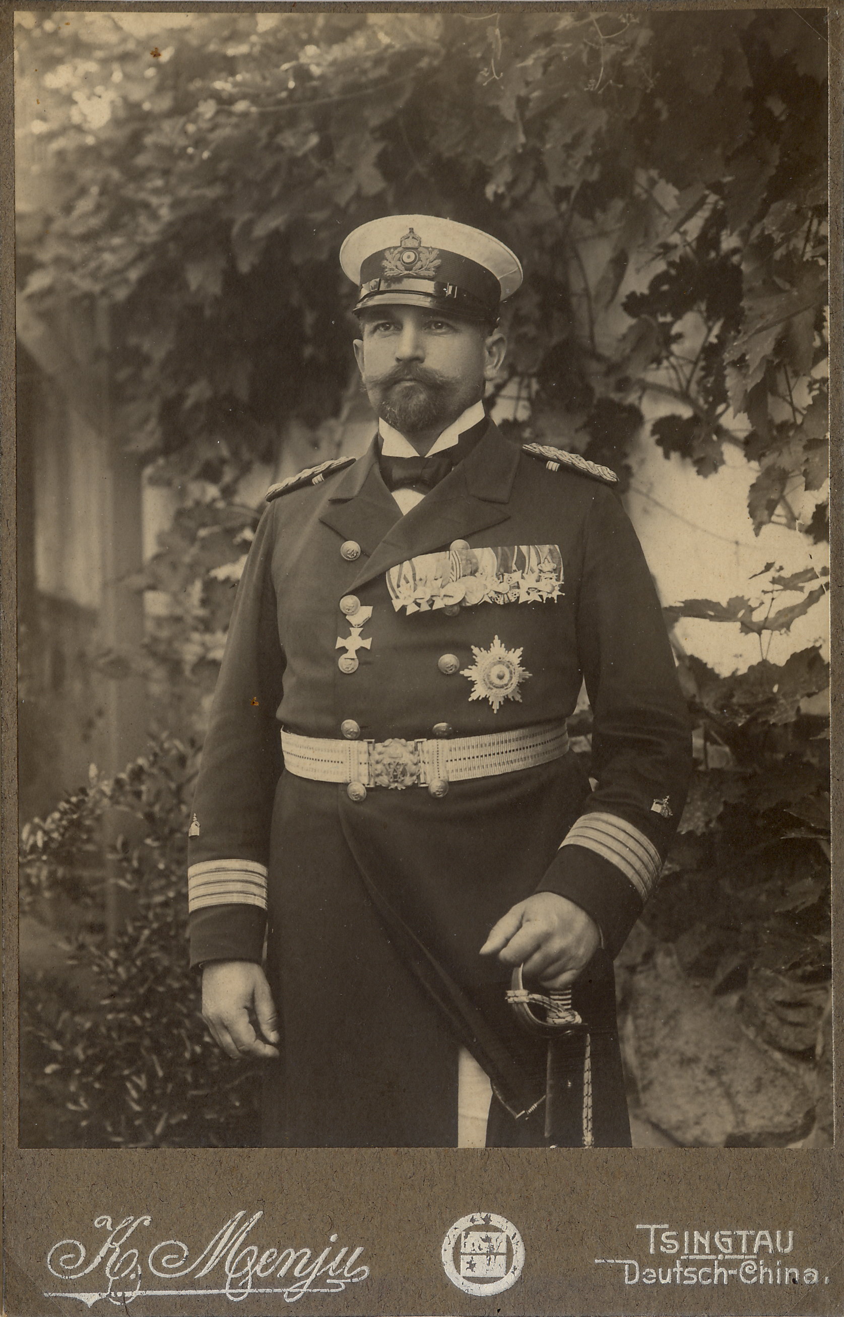 Felix Funke, German Navy Admiral and Governor in Tsing Tao.